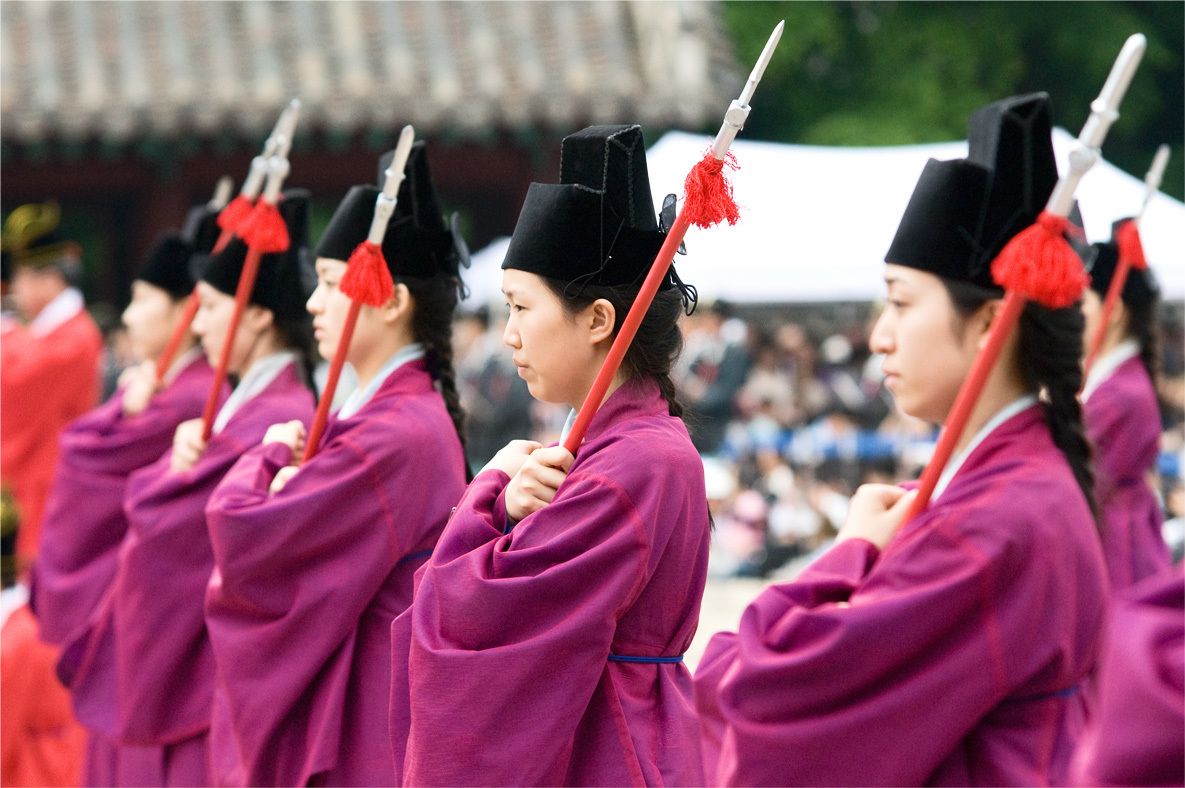 Ancestral Rites at Jongmyo Shrine, Seoul. Ilmu (일무) line dance ritual